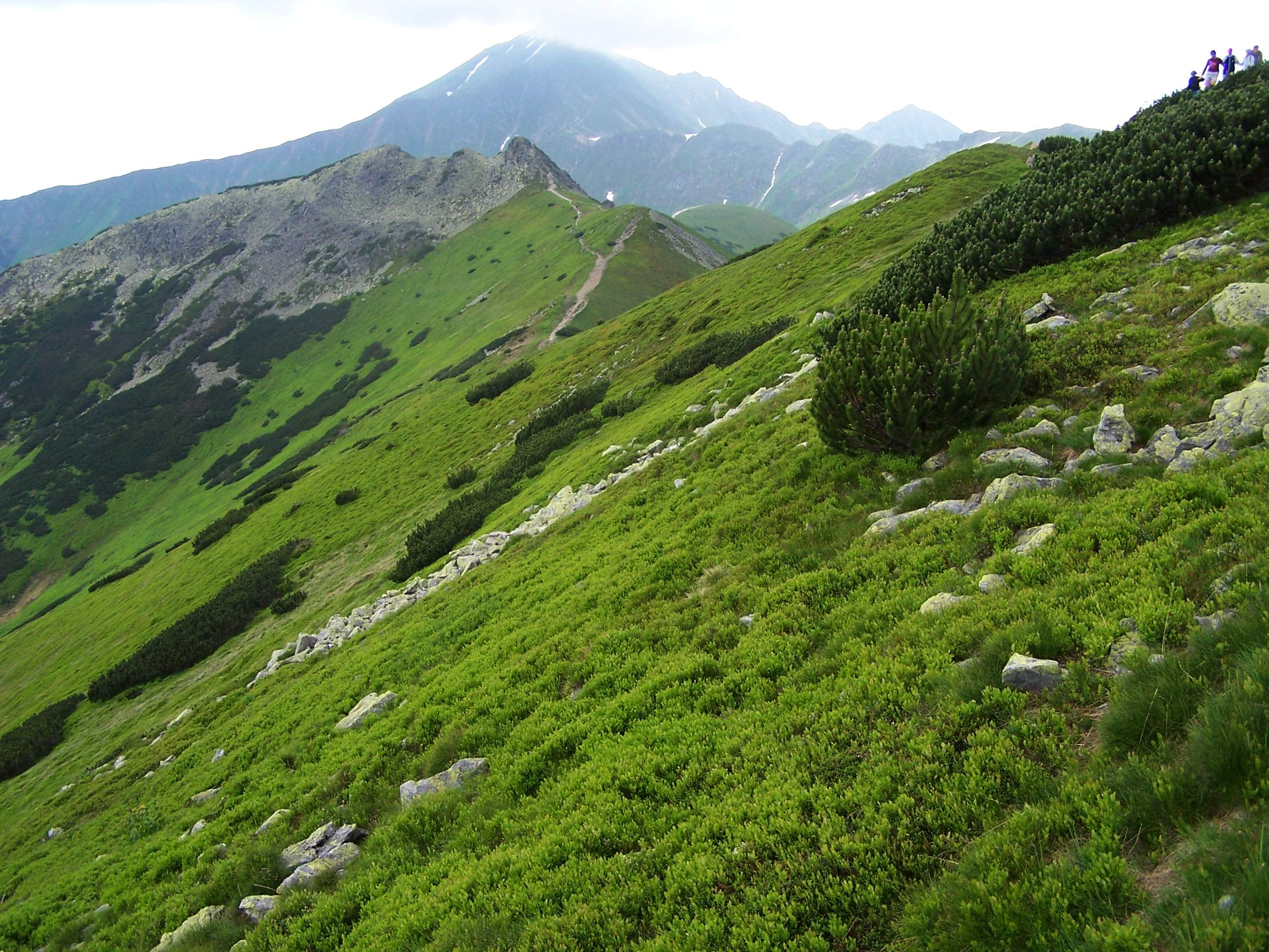 Ornak (West Tatra Mountains)